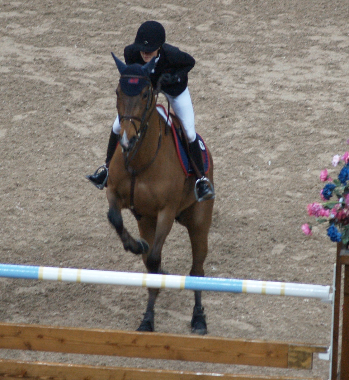 Malin Baryard-Johnsson with Butterfly Flip, FEI-World Cup Final 2007, Las Vegas, NV, USA